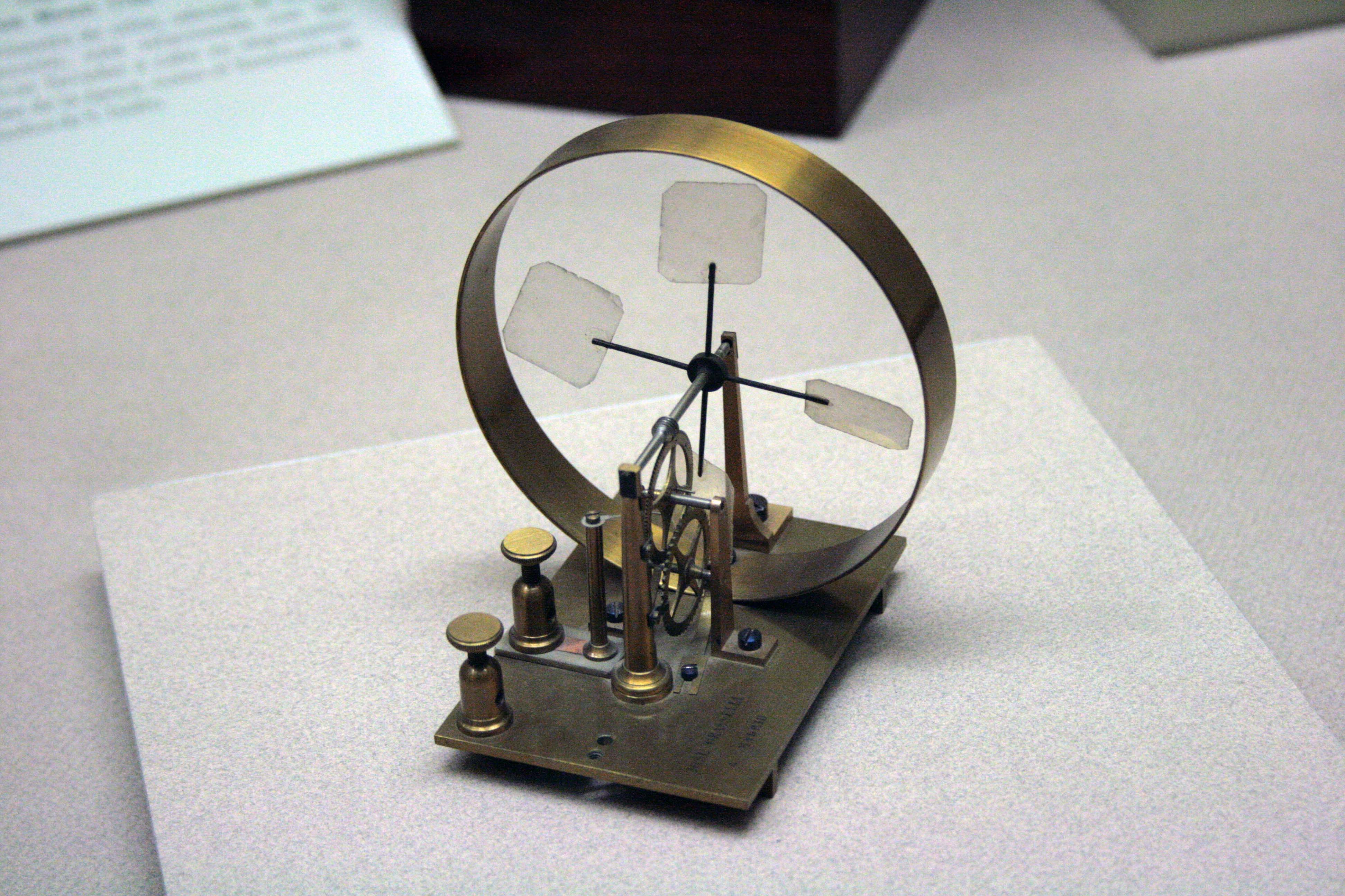 Anemometer from 1870